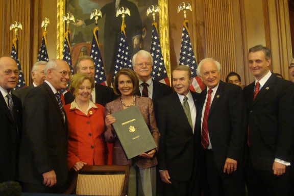 Speaker Nancy Pelosi, House Leaders, Committee Chairs and newer Members of Congress held an enrollment ceremony in the Rayburn Room of the Capitol to sign the revised Health Care and Education Reconciliation Act and send it to President Obama for his signature into law